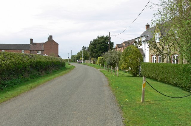 Farm Town in Leicestershire